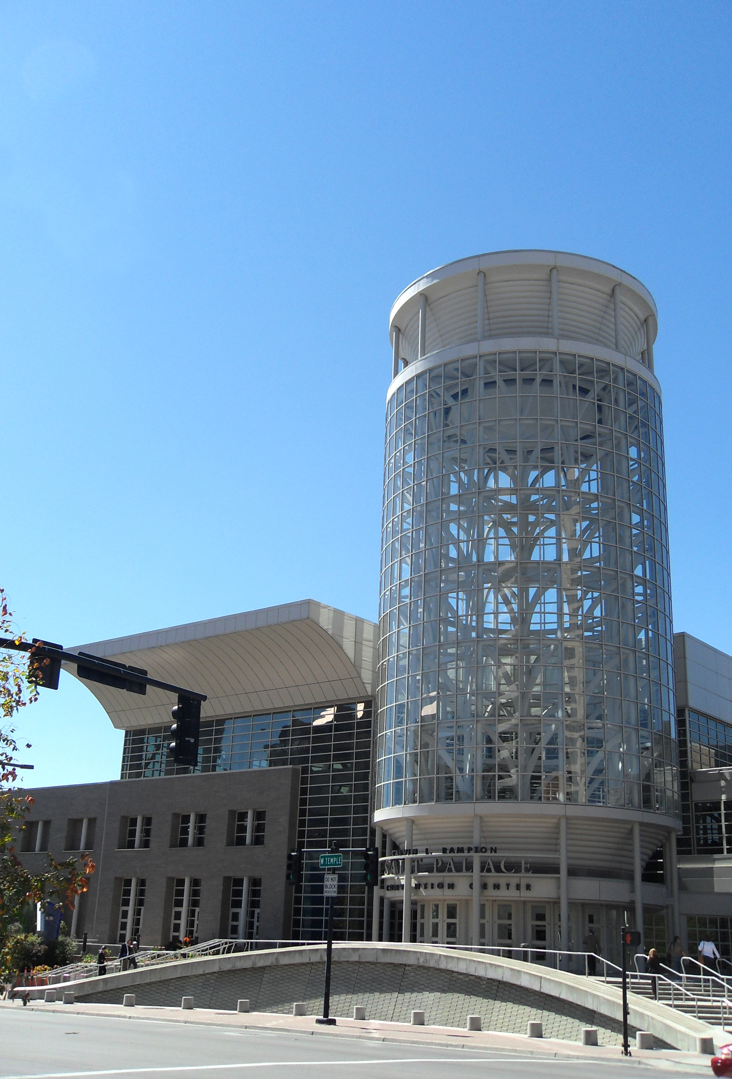 The entrance to Salt Lake City's Salt Palace convention center on West Temple Street.